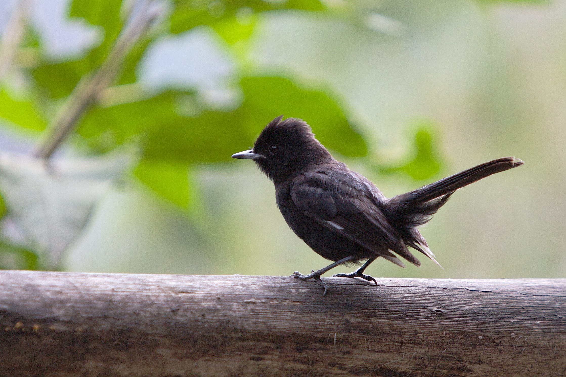 A White-winged Black-tyrant in Macchu Picchu, Peru. Photopgraphed in Machu Picchu Sanctuary Lodge hotel.